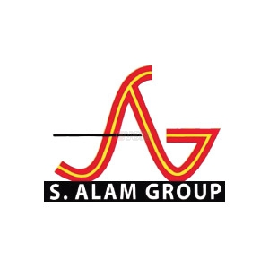 Company logo